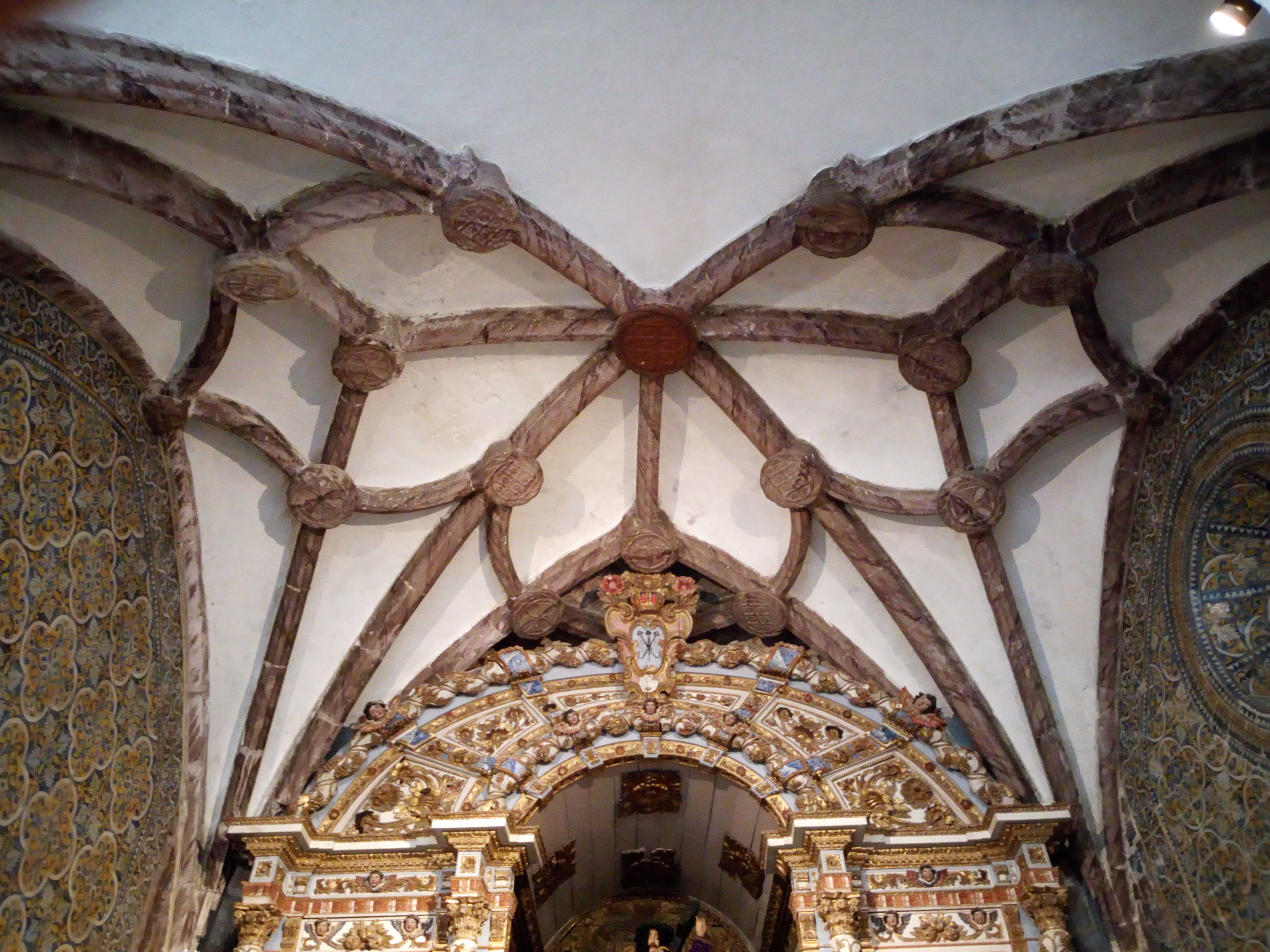 Interior of the Church of Saint Mary of the Castle in Tavira, Portugal.